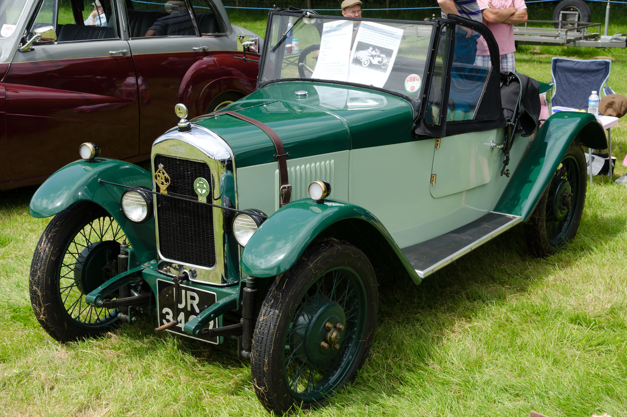 Singer 8 Junior Porlock sports (DVLA) first registered 22 May 1929, 848 cc Hoghton Tower Classic Car show 22/06/2014